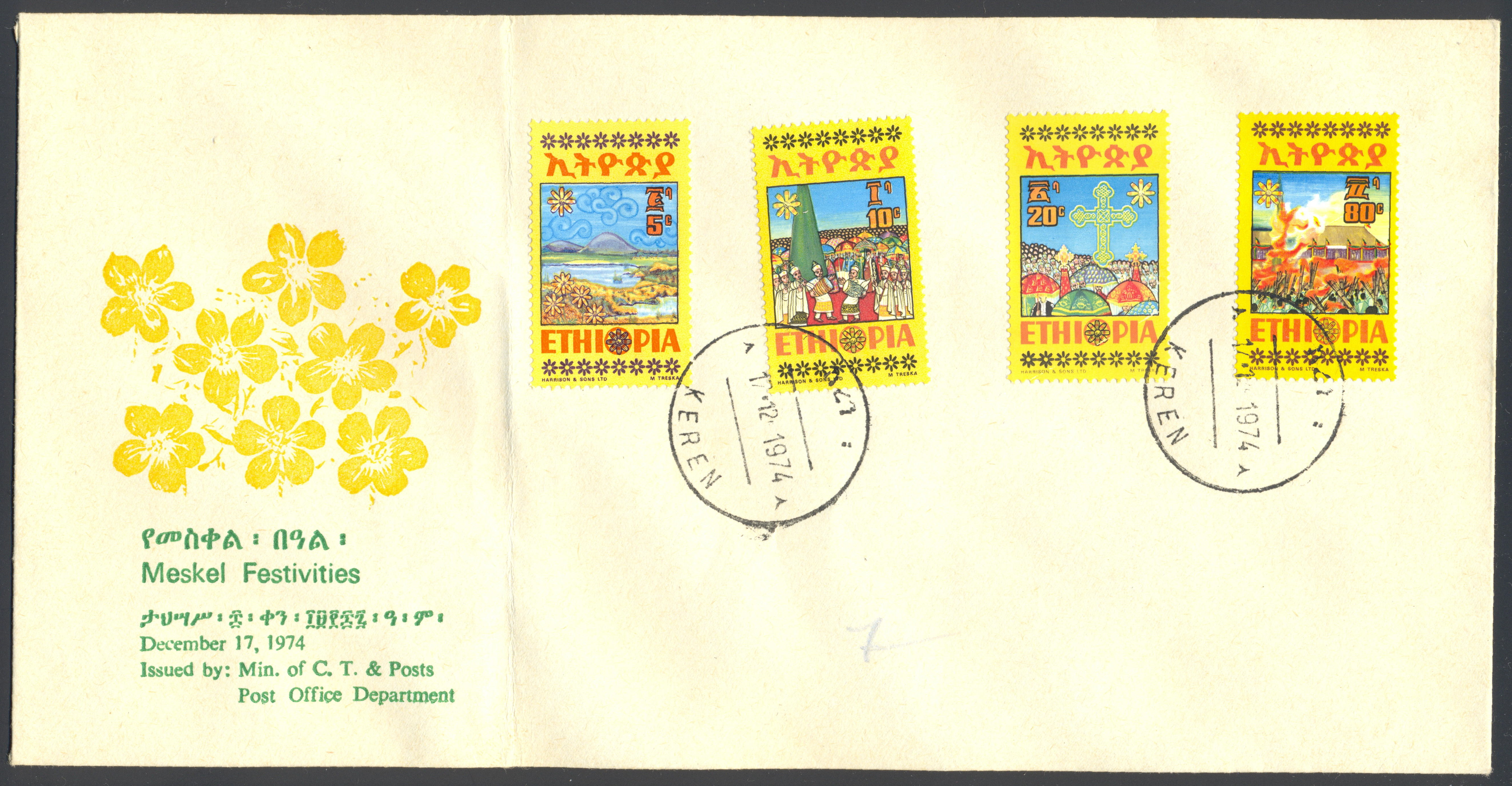 Ethiopian First Day Cover, Meskel festivities, with postmark of Keren post office (December 17, 1974).